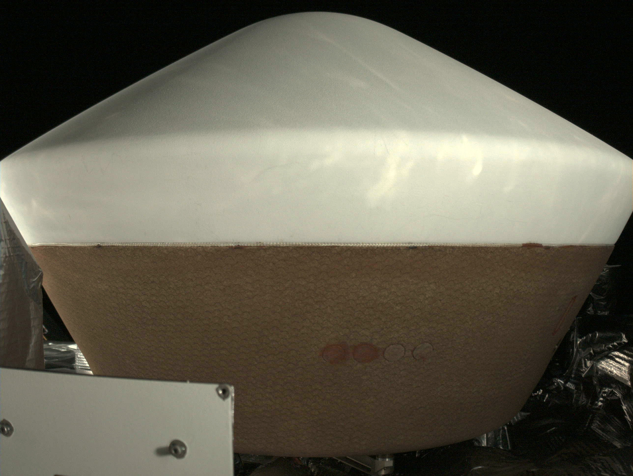 On September 22, 2016, two weeks after launch, the OSIRIS-REx spacecraft switched on the Touch and Go Camera System (TAGCAMS) to demonstrate proper operation in space. This image of the spacecraft was captured by the StowCam portion of the system when it was 3.9 million miles (6.17 million km) away from Earth and traveling at a speed of 19 miles per second (30 km/s) around the Sun. Visible in the lower left hand side of the image is the radiator and sun shade for another instrument (SamCam) onboard the spacecraft. Featured prominently in the center of the image is the Sample Return Capsule (SRC), showing that our asteroid sample’s ride back to Earth in 2023 is in perfect condition. In the upper left and upper right portions of the image are views of deep space. No stars are visible due to the bright illumination provided by the sun.